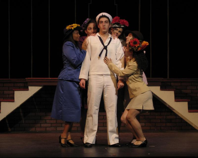 On The Town, by me, no copyright.